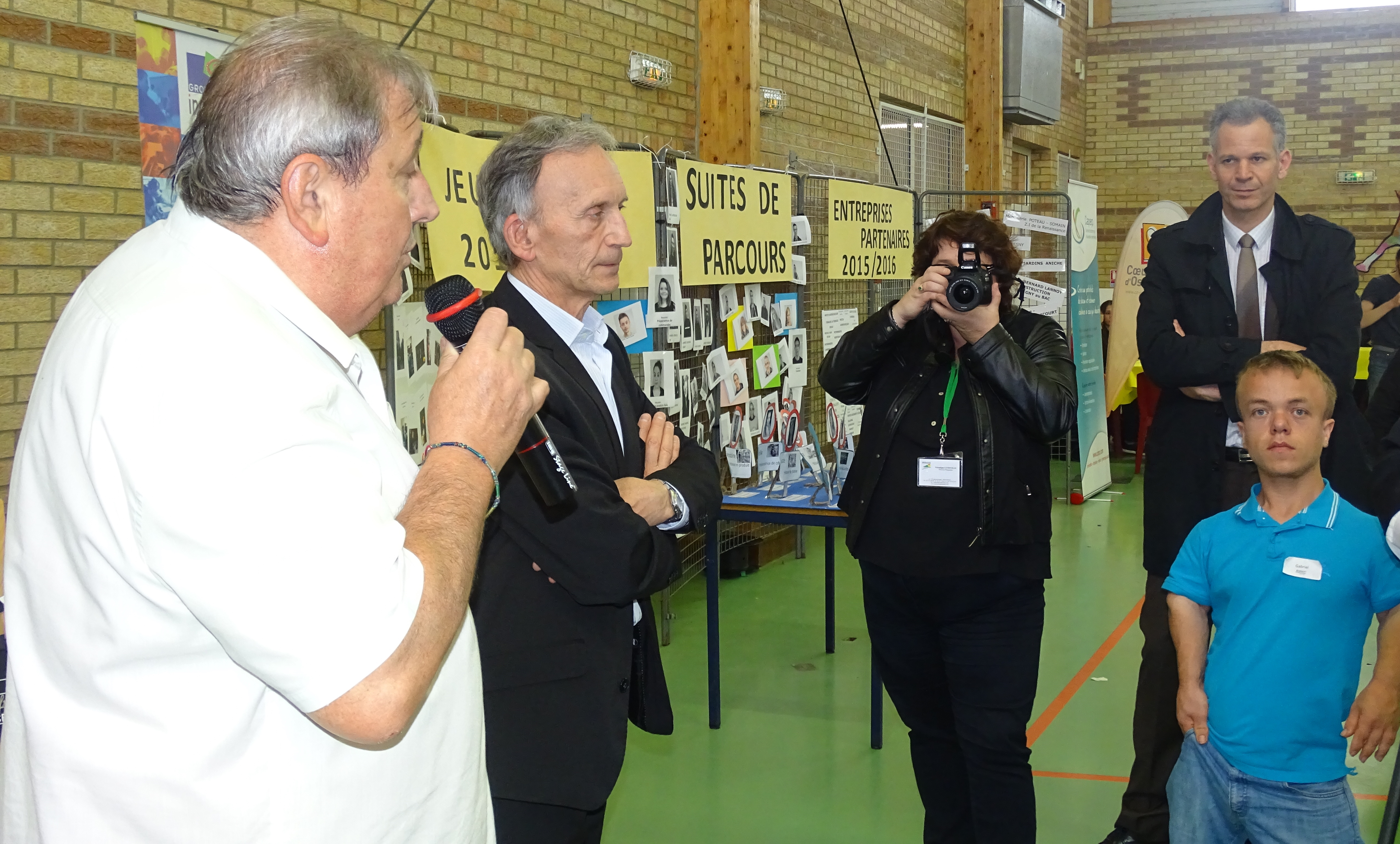 Depicted place: Écaillon Depicted person: Georges Cino – French politician